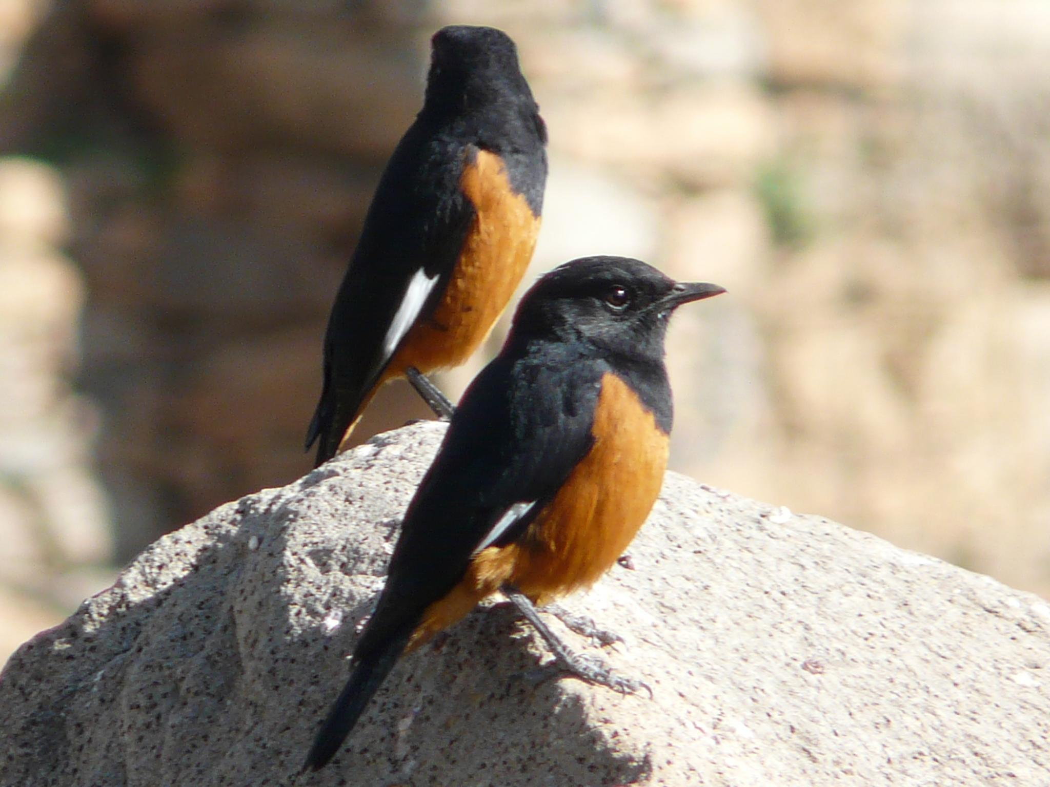 Two male White-winged Cliff-chats in Ethiopia.